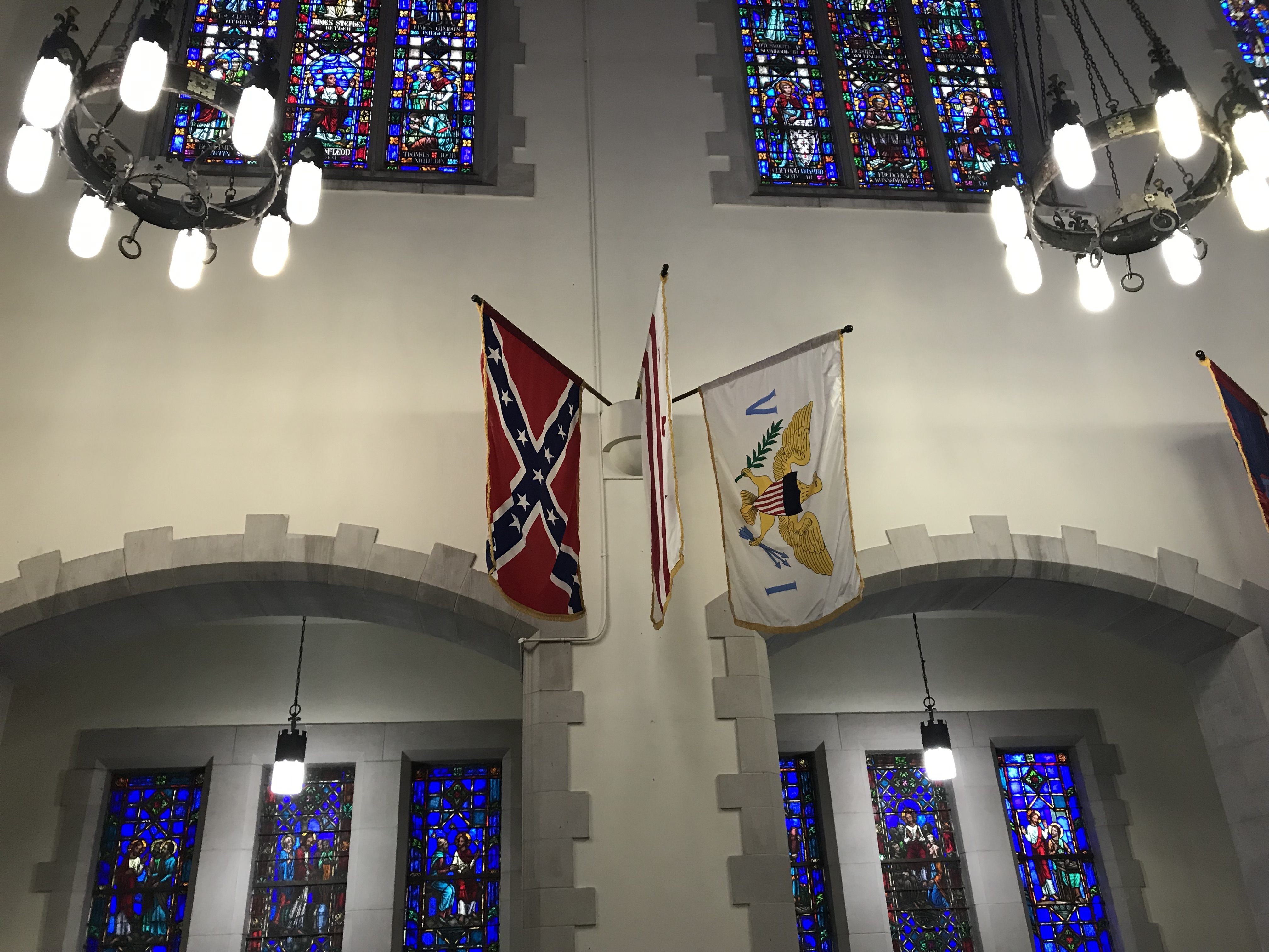 Confederate Naval Jack flown in the chapel at The Citadel, the Military College of South Carolina